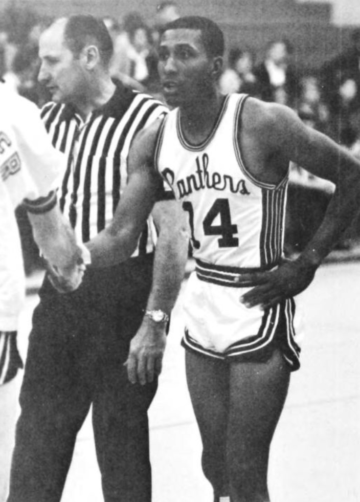 High Point University player Gene Littles in the 1968 Zenith.